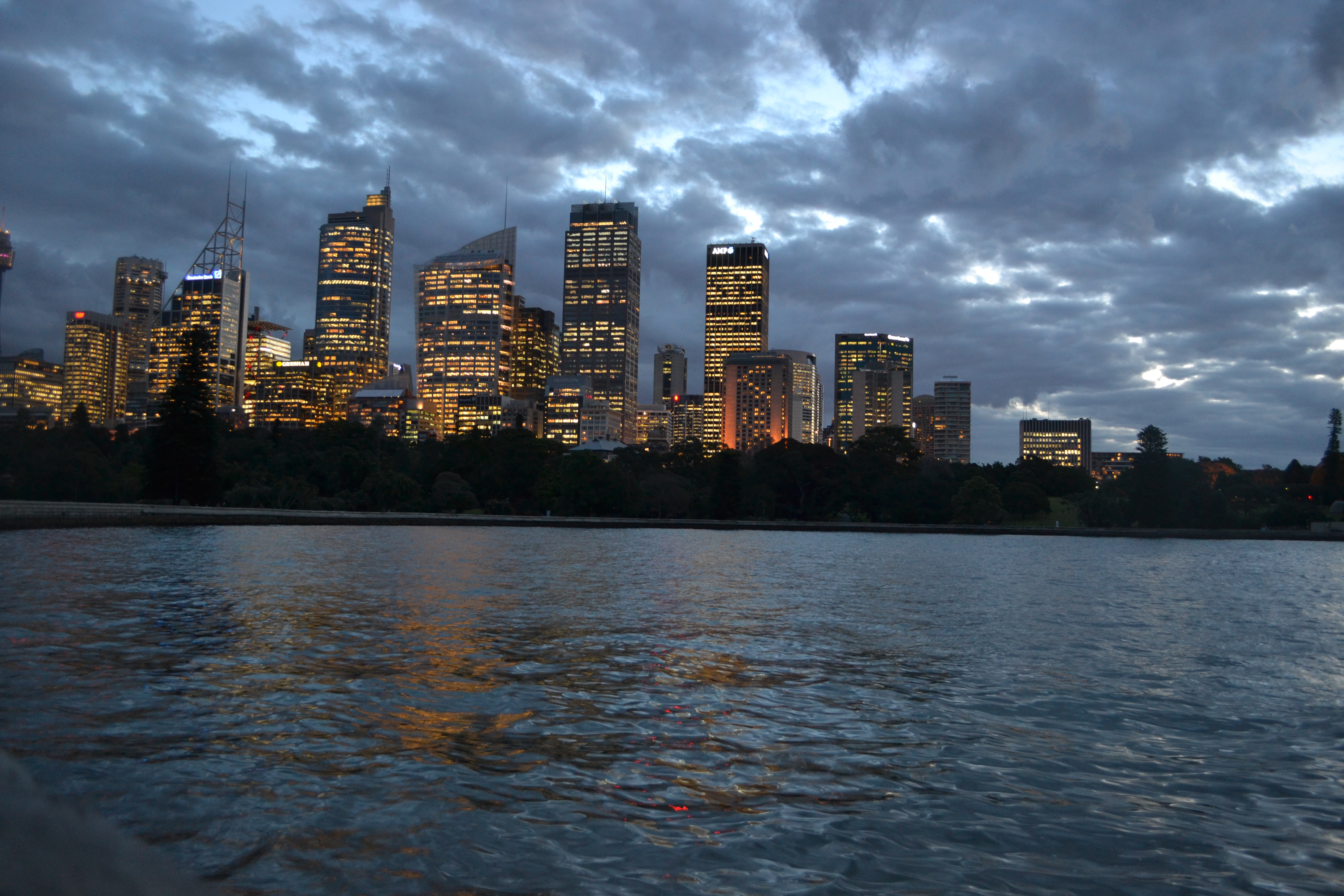 Ritratto di città di sera , Sydney, 2012